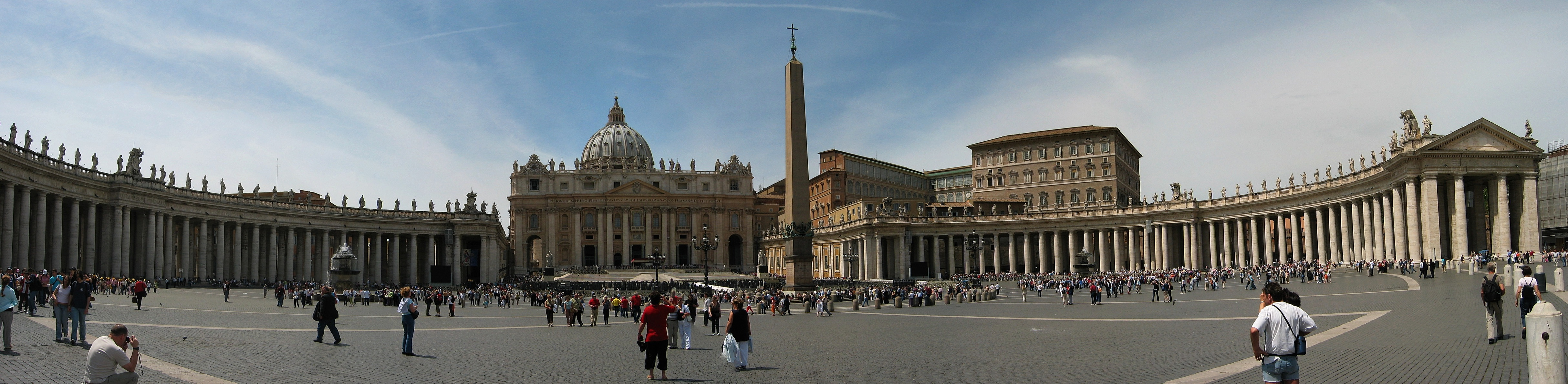 Panorama of St Peter's Square in Vatican City. Panorama created using Hugin/Panotools and enblend. EXIF data is from first picture in sequence.